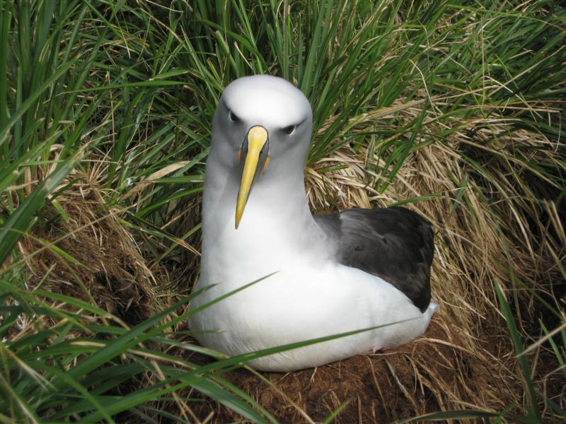 A southern Buller's Albatross (Thalassarche bulleri) nesting above 'Penguin Slope' on Snares Islands, New Zealand